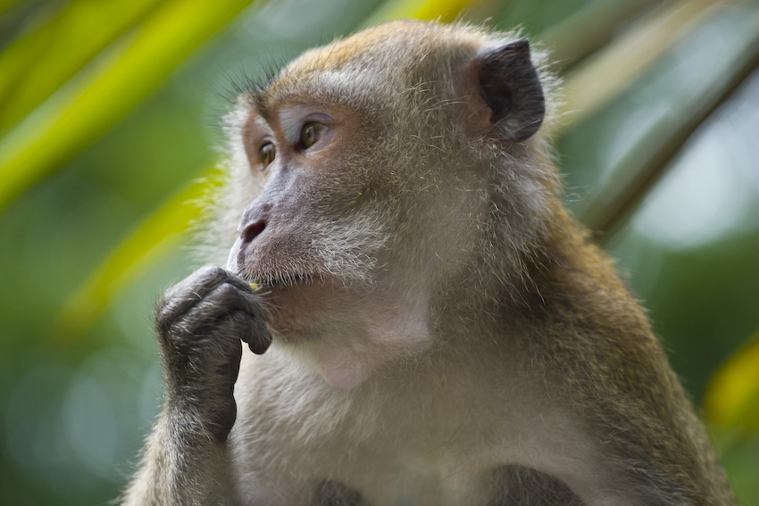 Crab-eating macaque (Macaca fascicularis), portrait, Singapore